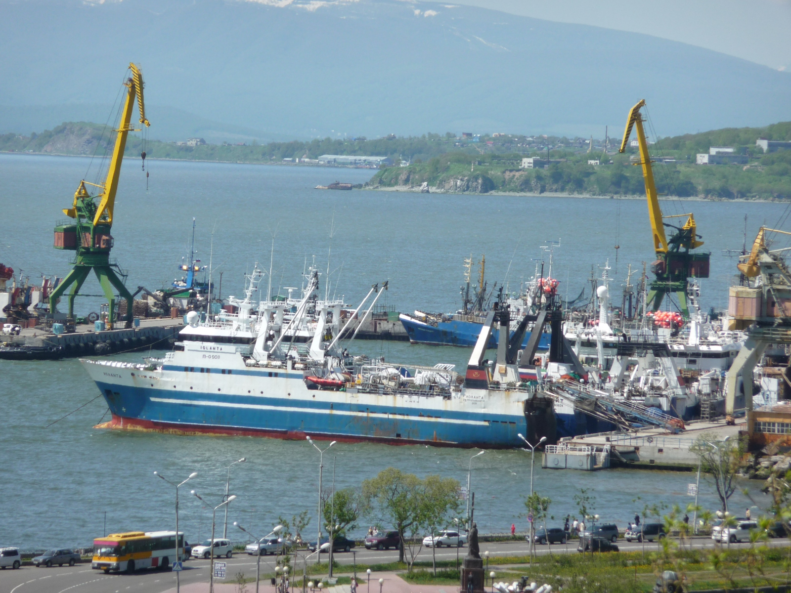 Trawler P-0908 Iolanta, IMO 8913289 - Port of Petropavlovsk-Kamchatsky